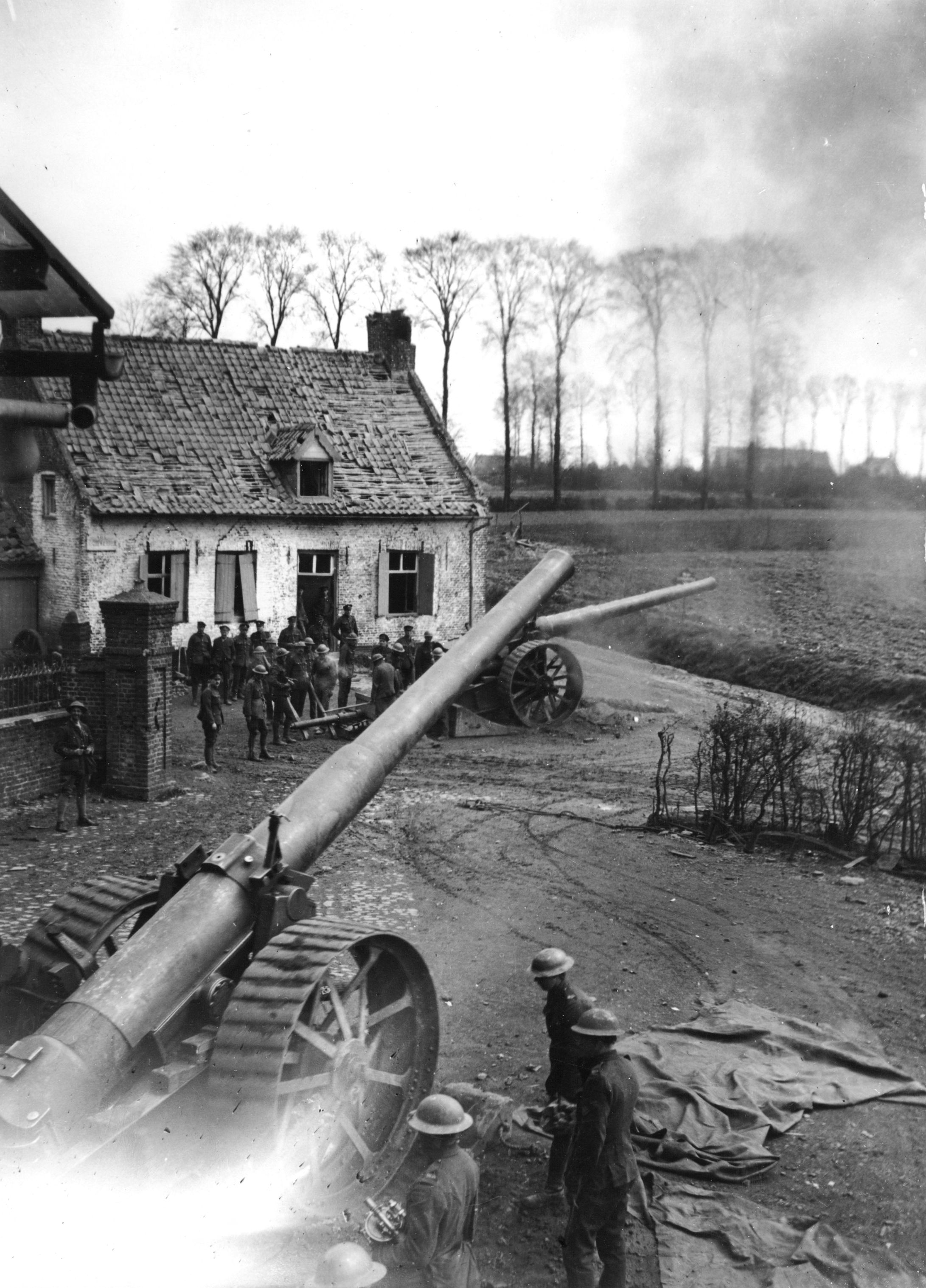 Battery of British 6-inch Mk VII field guns in position on the Western Front. See also File:6 inch Mk VII field gun NLS 74547830.jpg